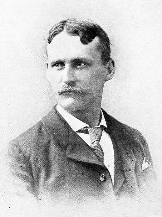 Photo of William M. Butterfield, architect of Manchester, NH, c.1896. From the caption: "William M. Butterfield, a native of Maine, came to Manchester in 1881 and established an architect's office which now ranks second to none in the state and is excelled by few in New England. Professionally he has been engaged on several of the best buildings in the state, including The Kennard, new High School, county buildings at Grasmere, Odd Fellows building, Nashua, and more than five hundred other public and private buildings throughout New England. Mr. Butterfield is a Republican and he has represented his ward in the common council and is now a member of the general court of New Hampshire."